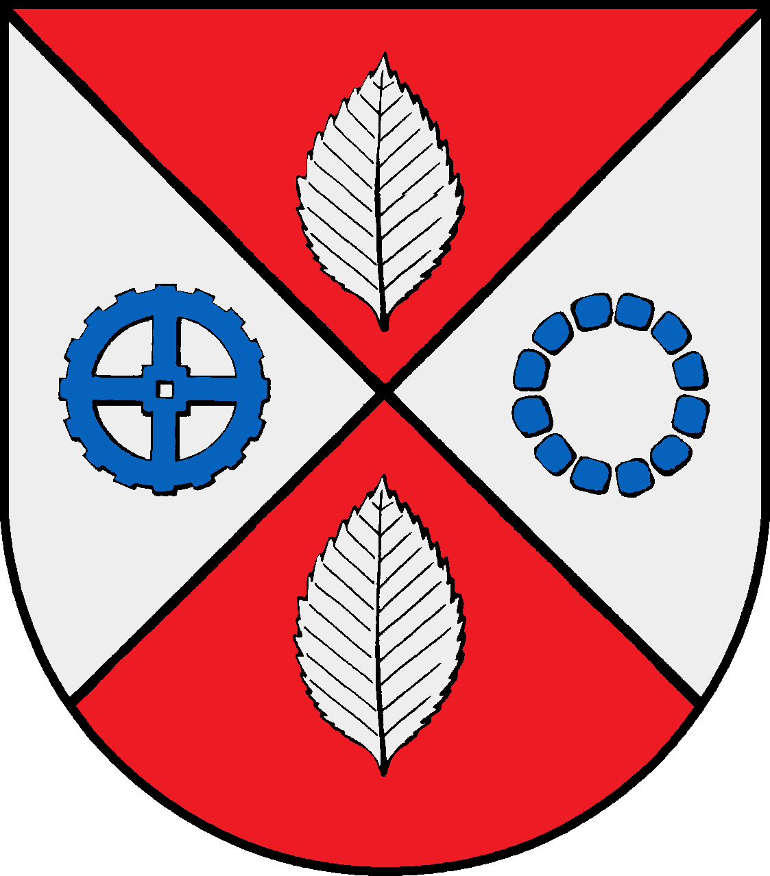 Coat of arms of the municipality Grebin in Schleswig-Holstein, Germany.